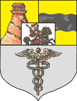 Arms of Tiflis